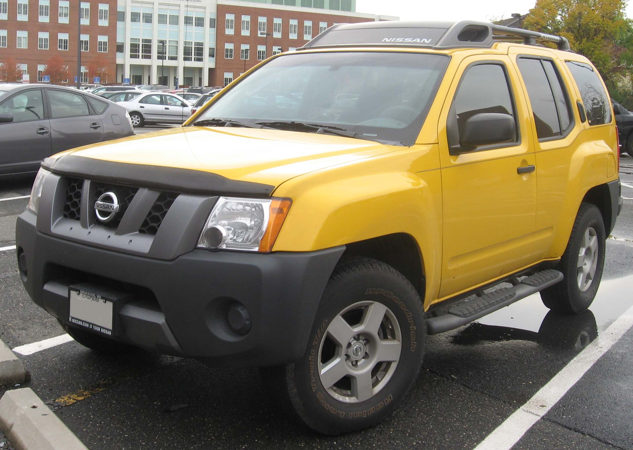 2005-2008 Nissan Xterra photographed in College Park, Maryland, USA.